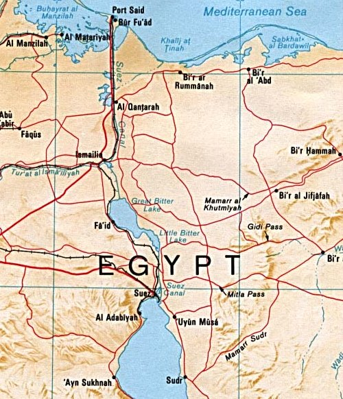 Map of the Suez canal extracted from a map of the Sinai Peninsula.